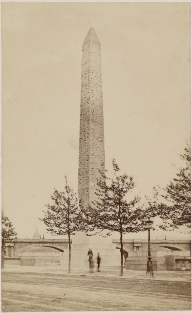 [Cleopatra's Needle, London]; Unknown maker, British; 1878; Albumen silver print; 17.8× 10.9 cm (7 × 4 5/16 in.); 84.XP.1432.20; No Copyright - United States (